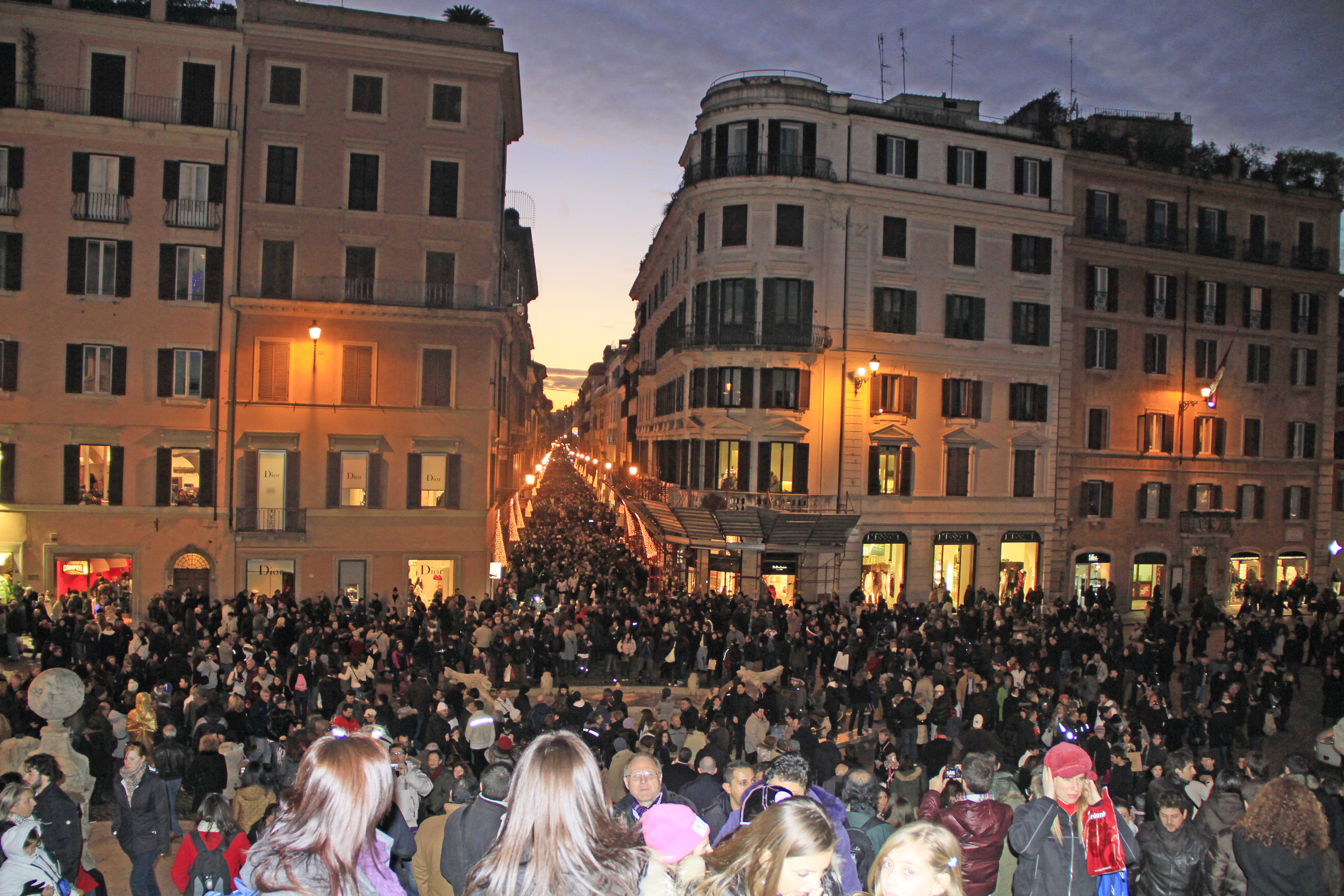 Scalinata della Trinità dei Monti